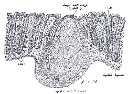 Section of mucous membrane of human rectum.